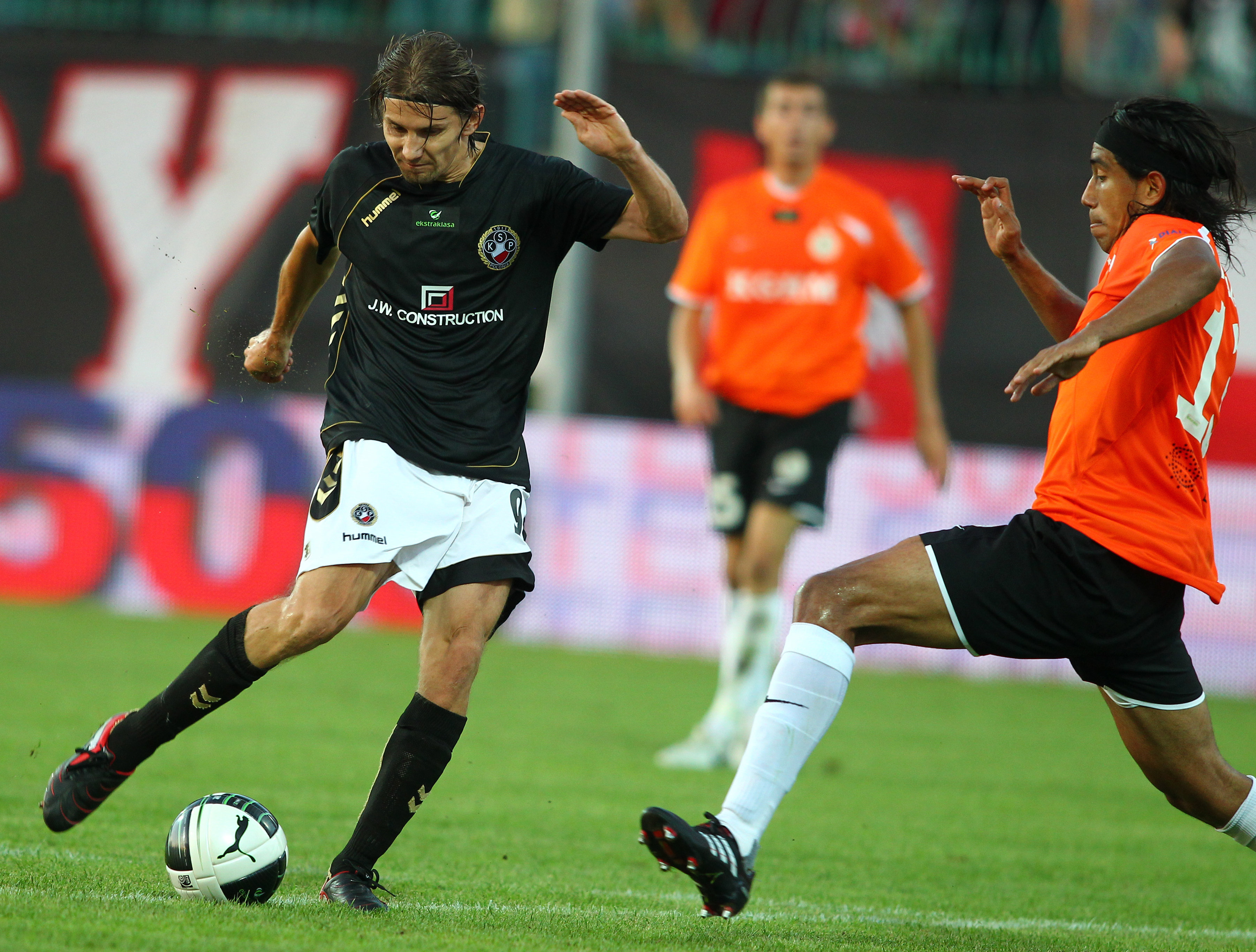 Sergio Reina (right) of Zagłębie Lubin tries to block a shot from Euzebiusz Smolarek (left) of Polonia Warszawa during an Ekstraklasa match